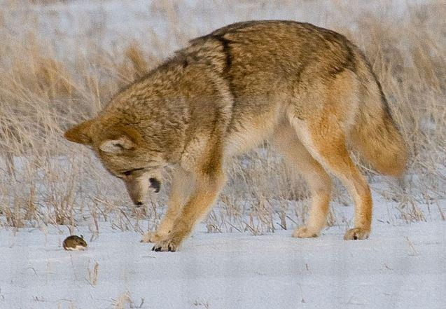 A true David and Goliath tale. Photo Credit: Rich Keen / DPRA